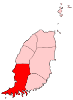 Map of Grenada showing Saint George parish.